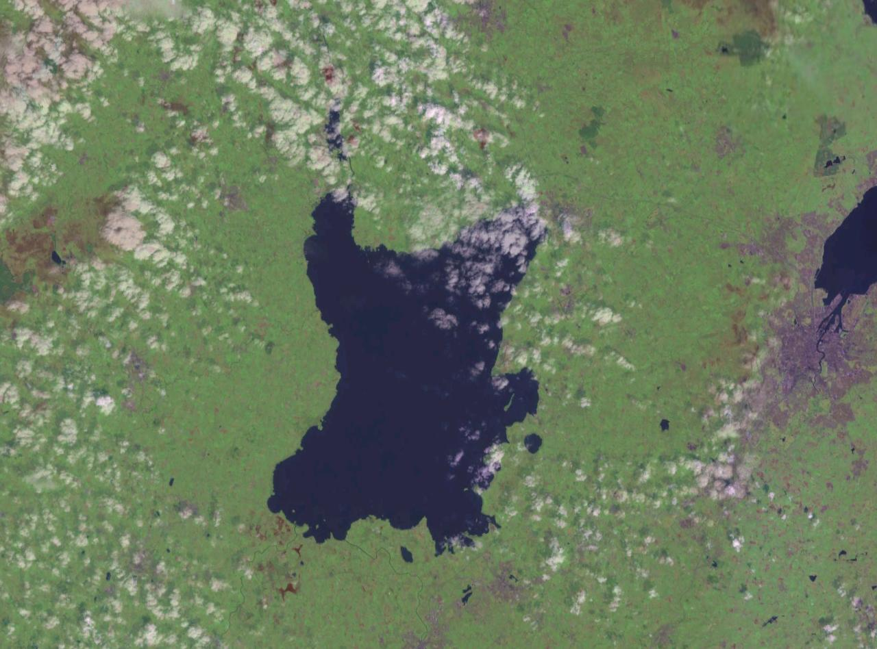 Lough Neagh in Northern Ireland